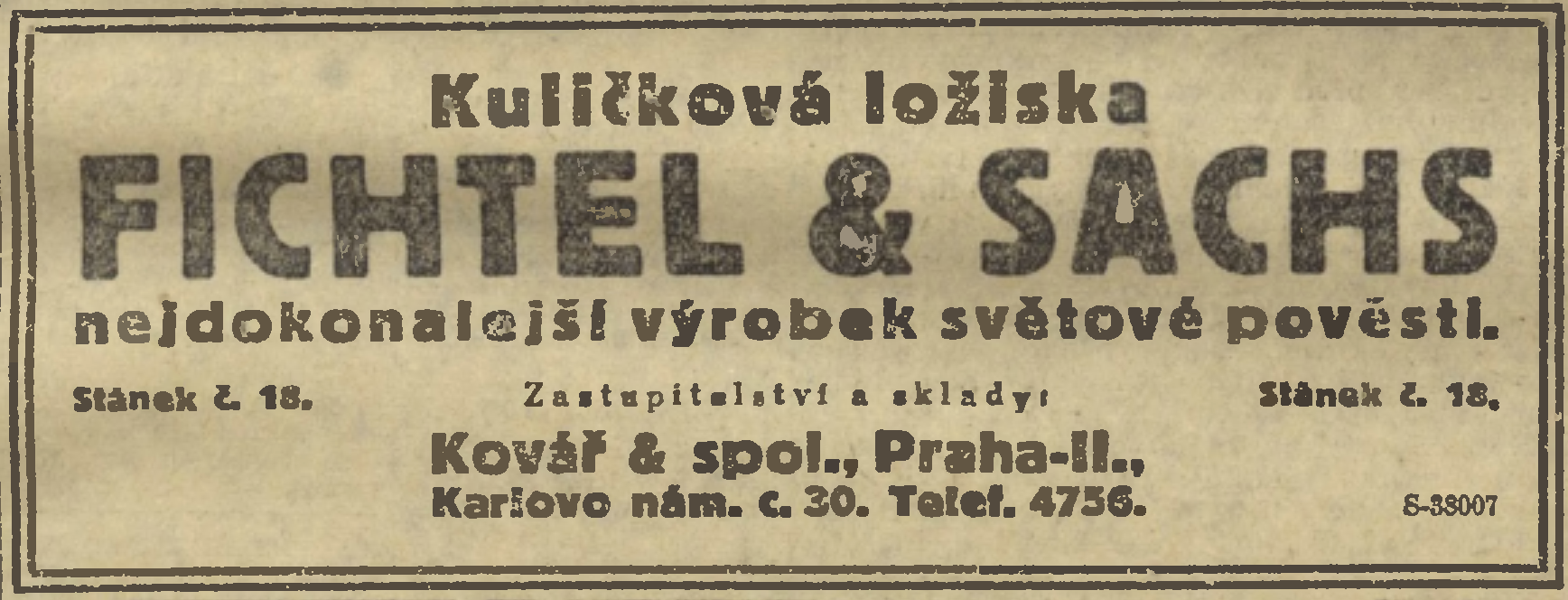 Advertisement of Fichtel and Sachs Co., 1921